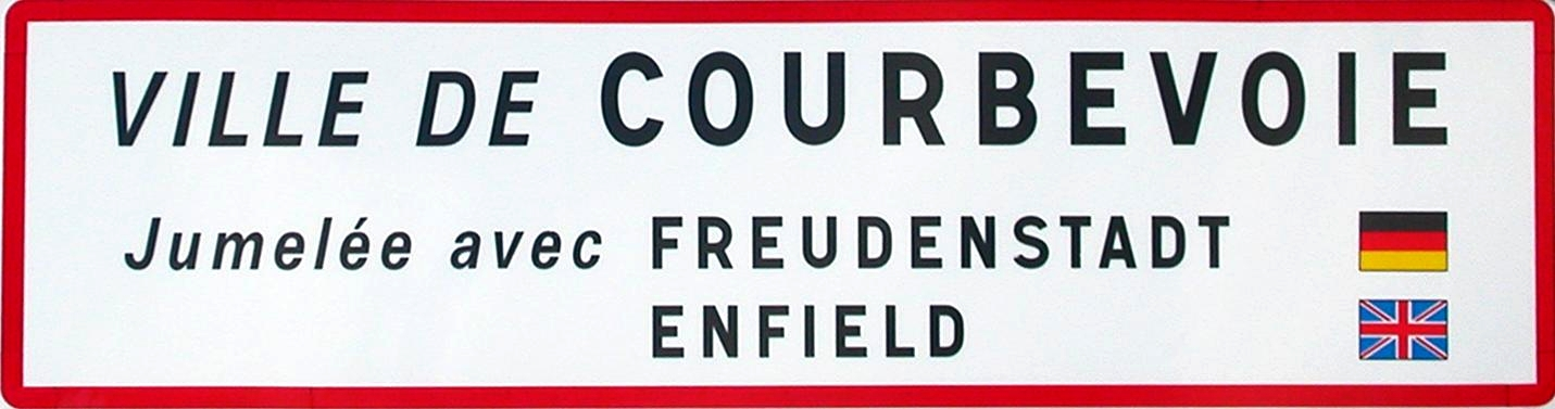 Courbevoie's city limit sign